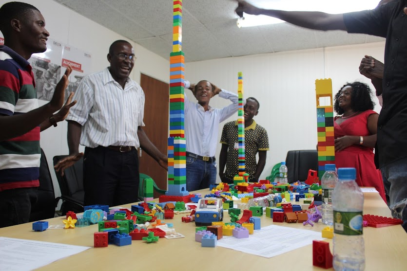 The picture was taken during a playful workshop held in Benguela province, Angola. This is an image with the theme "Play" from: Angola